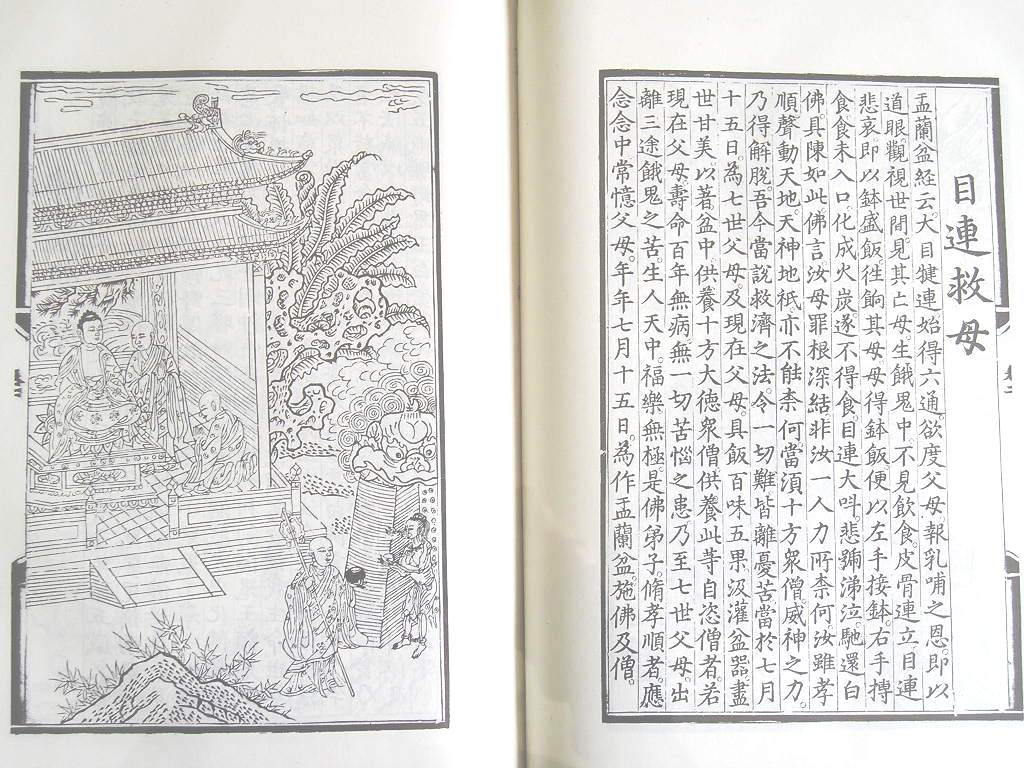 《目连救母》(Mulian jiumu), chinese book woot cut. Moggallana (Cn. Mulian), second chief disciple of the Buddha, asks from his master the way to save his mother (right-below) turned into a hungry ghost from hell. Chinese book.